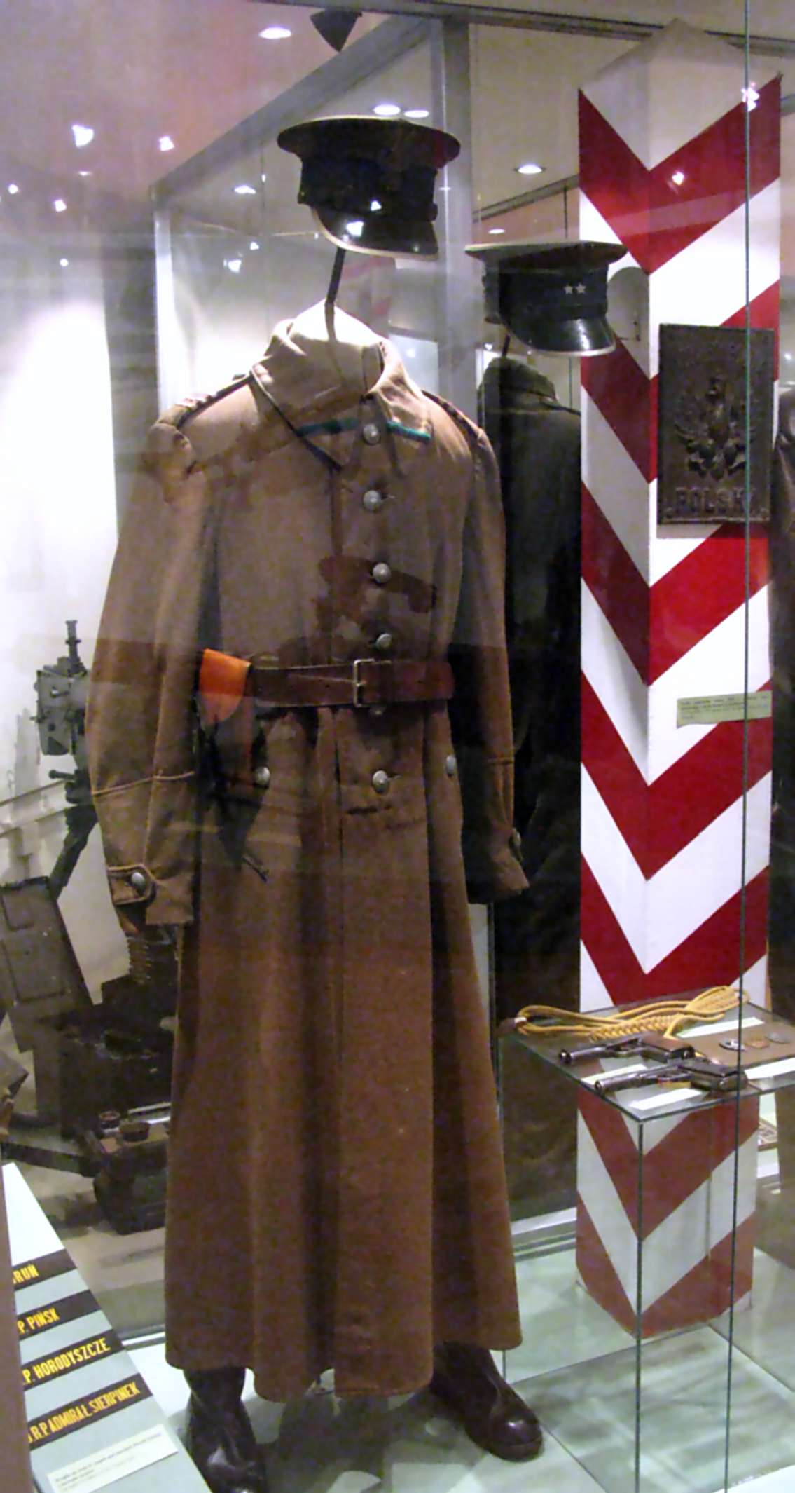 Uniform of soldier of Polish Korpus Ochrony Pogranicza (KOP), before 1939